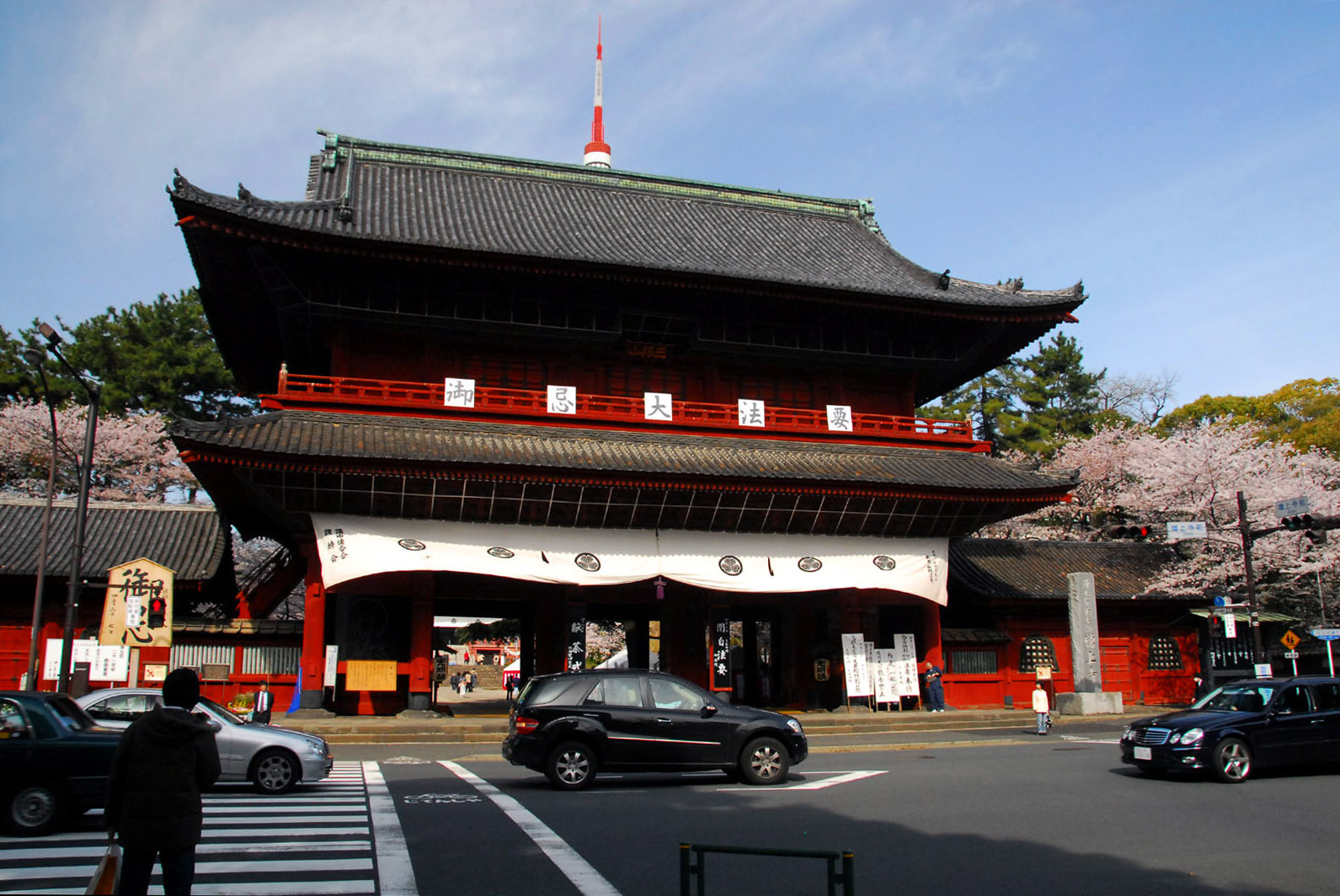 Zōjō-ji, Sangedatsu Gate